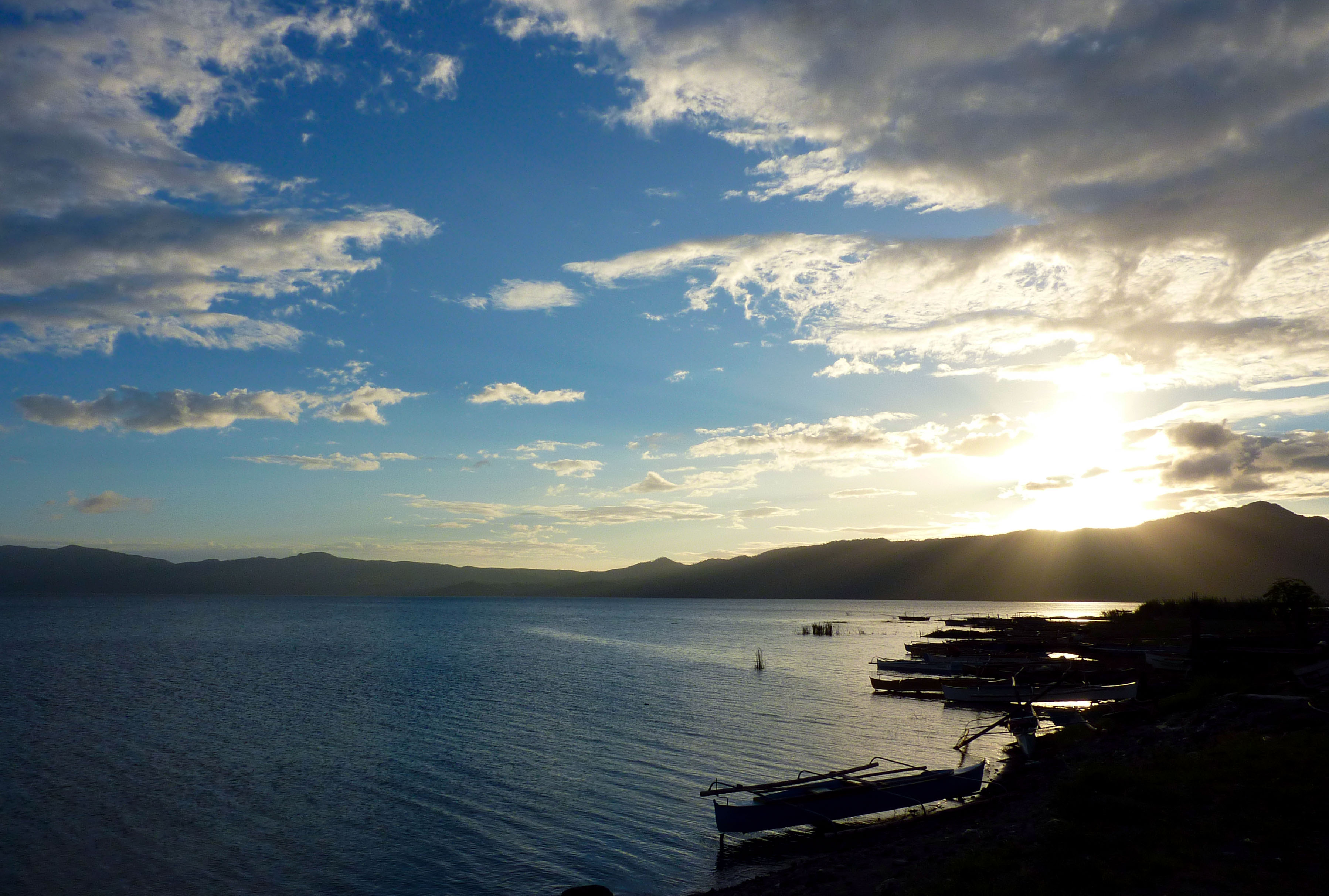 Sunset over Lake Mainit on the northern (Surigao del Norte) shore. View from the Kasili Resort.